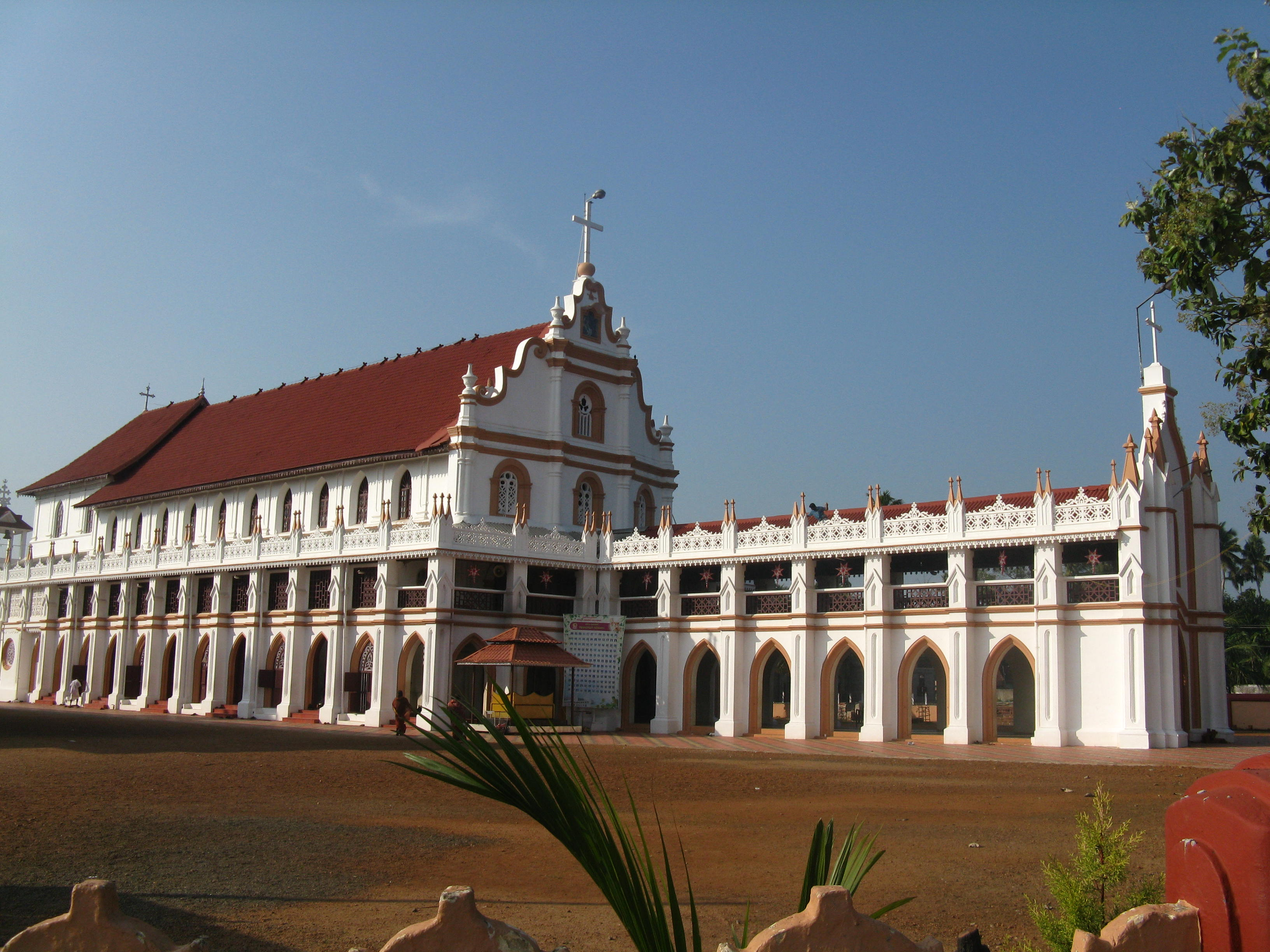 Edathua Church side view